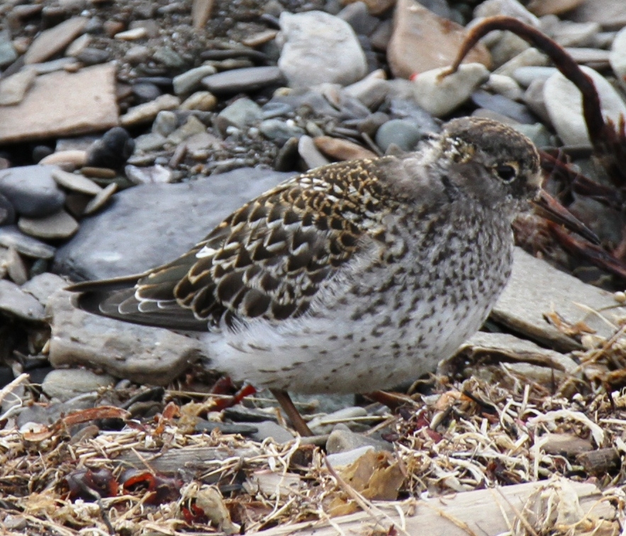 Bird life at Vestpynten / Hotellneset west if Longyearbyen, Spitsbergen.